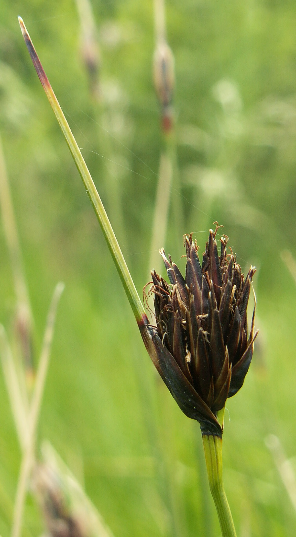 Schoenus nigricans, inflorescence. Bedgoszcz, NW Poland